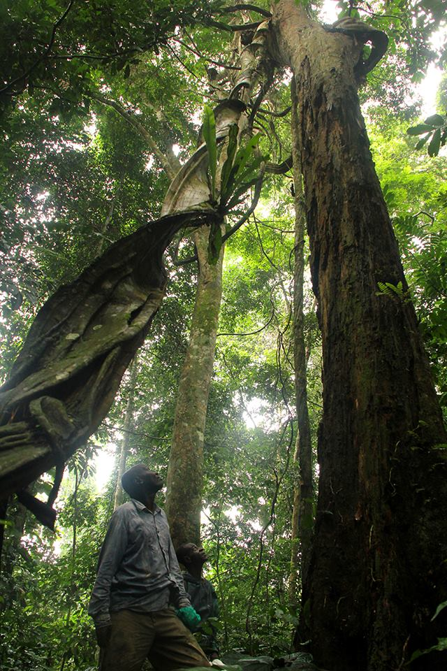 Millettia duchesnei De Wild. - liane with strange, twisted flattened stems, climbing into the canopy of a Congo forest — Yangambi, Congo Bart Wursten